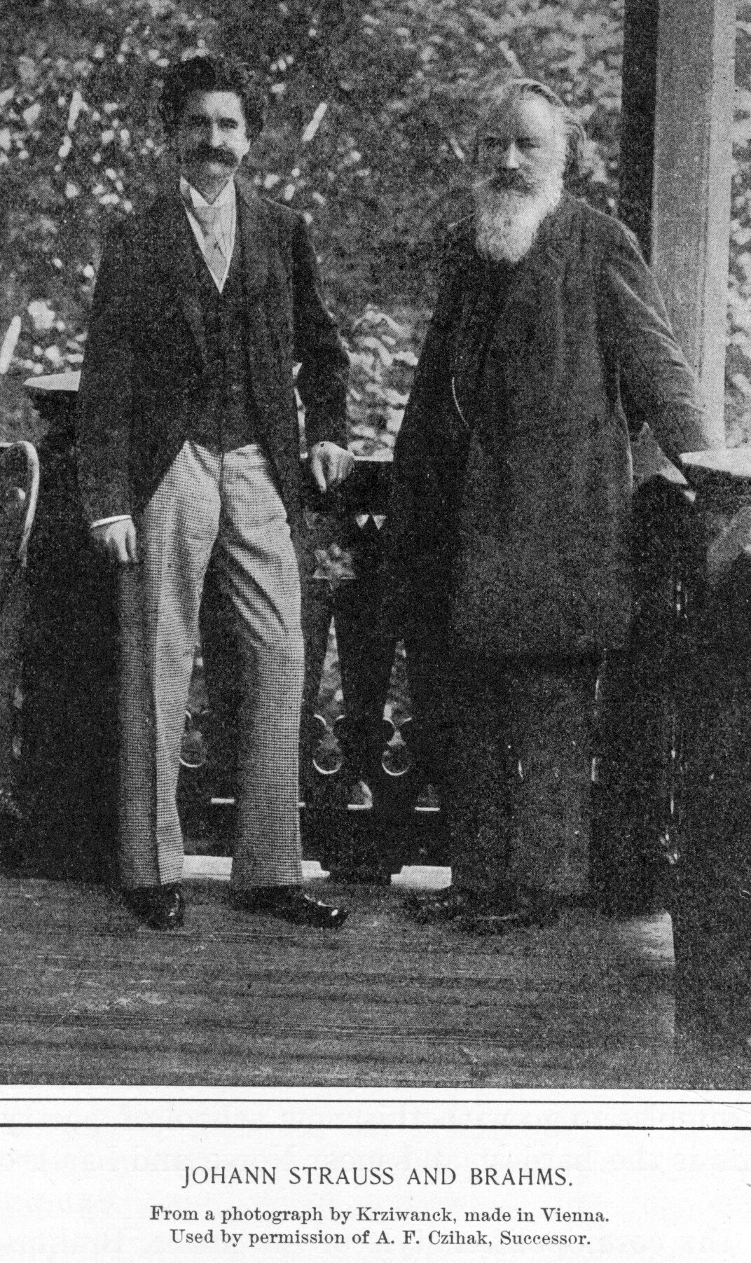 Johann Strauss and Brahms in Bad Ischl